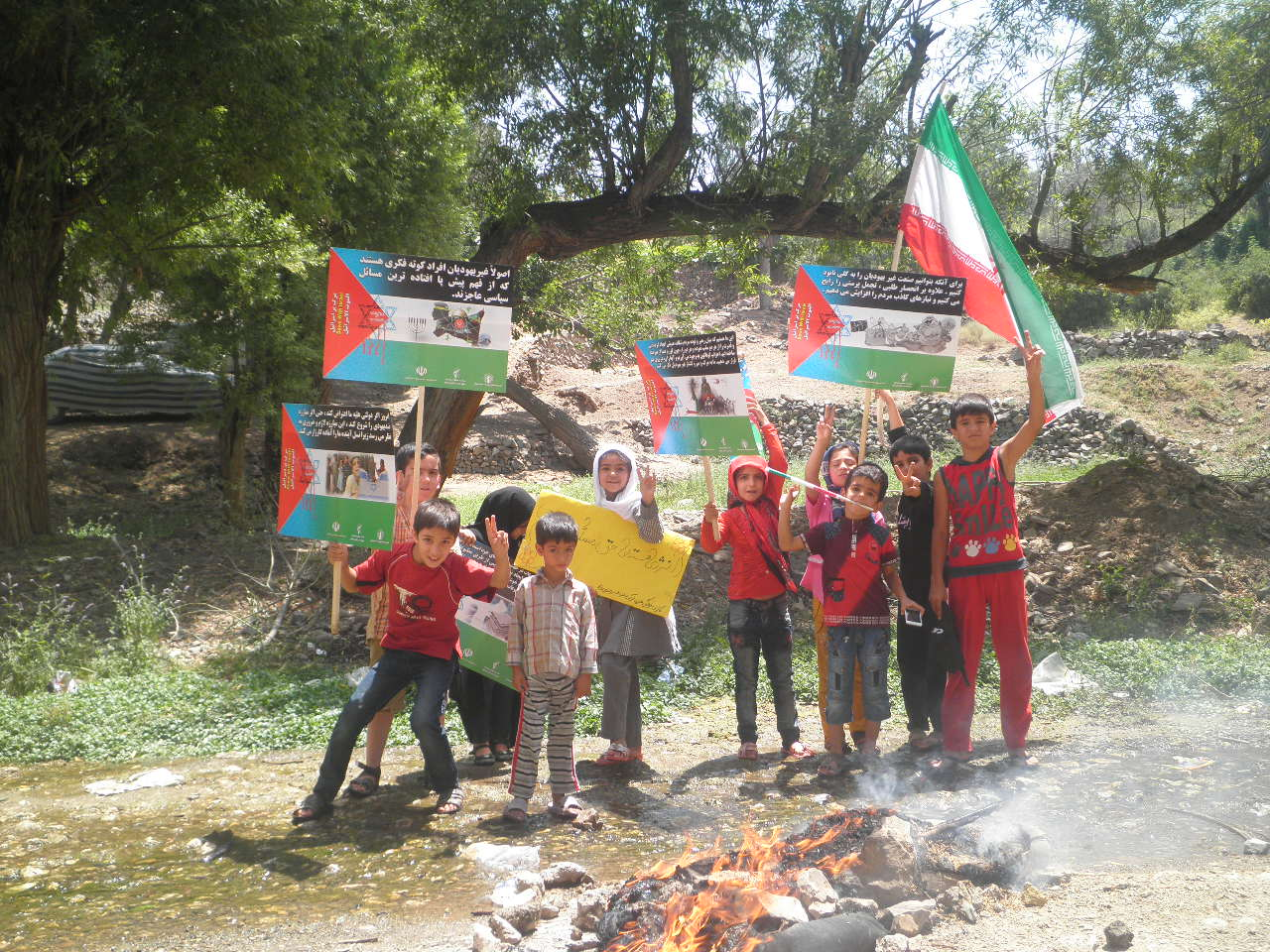 یبجه های قه